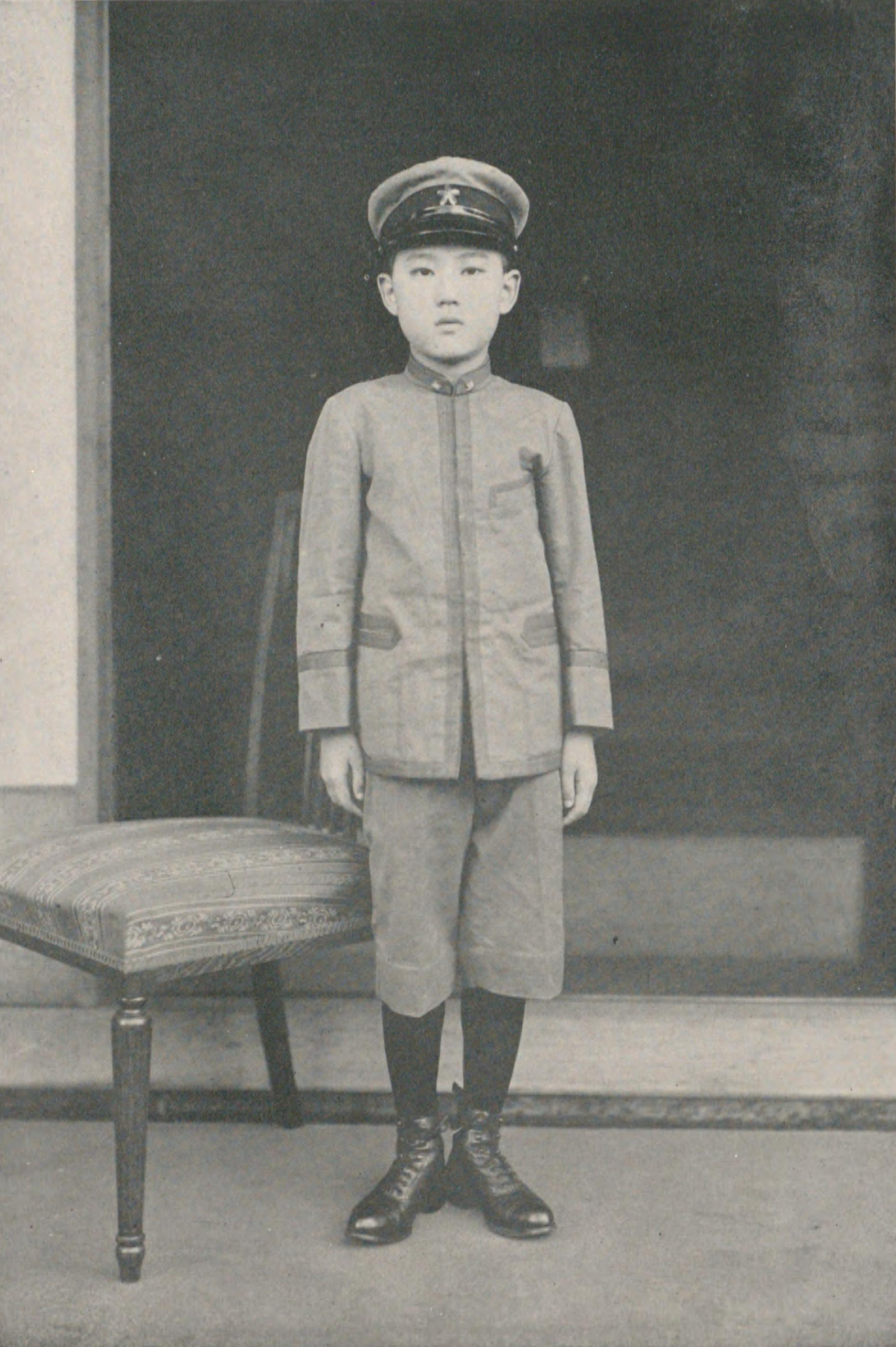 Prince Yi Wu, circa 1922